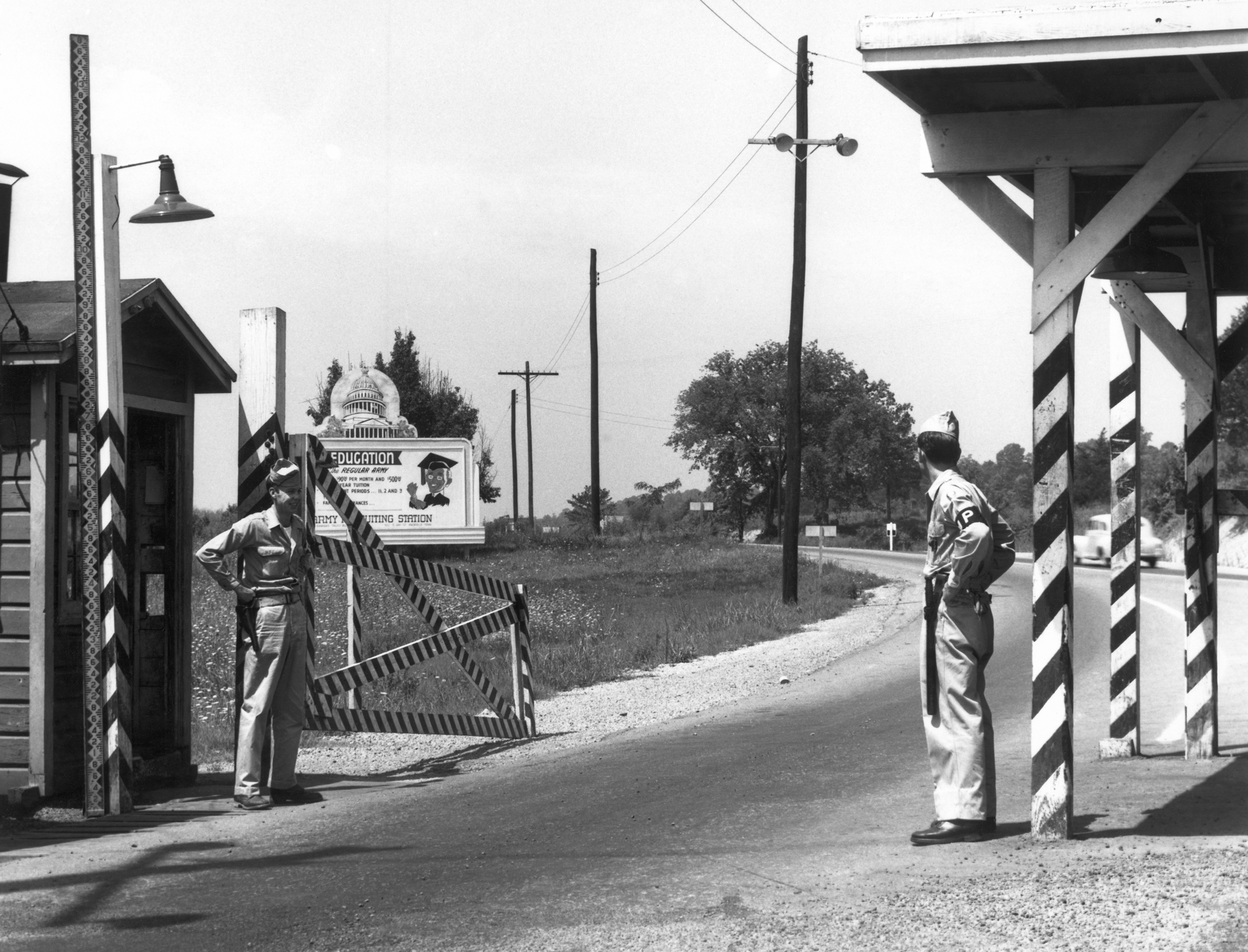 Solway Gate MPs on duty 1946